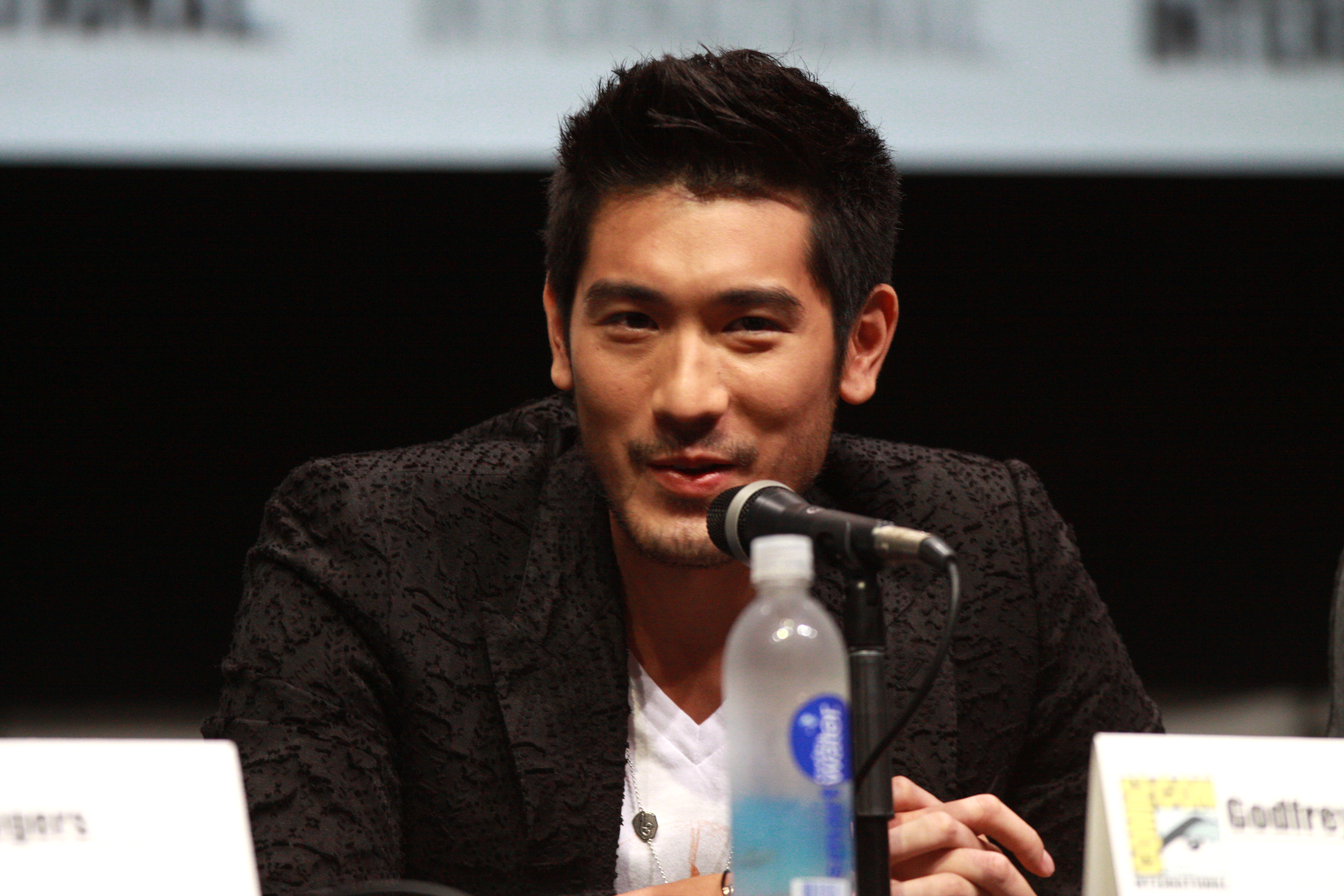 Godfrey Gao speaking at the 2013 San Diego Comic Con International, for "The Mortal Instruments: City of Bones", at the San Diego Convention Center in San Diego, California.